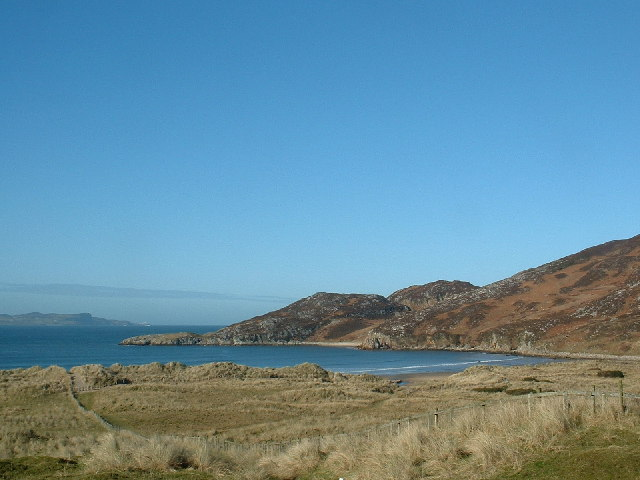 Crummie's Bay, near Dunree Head, Inishowen.